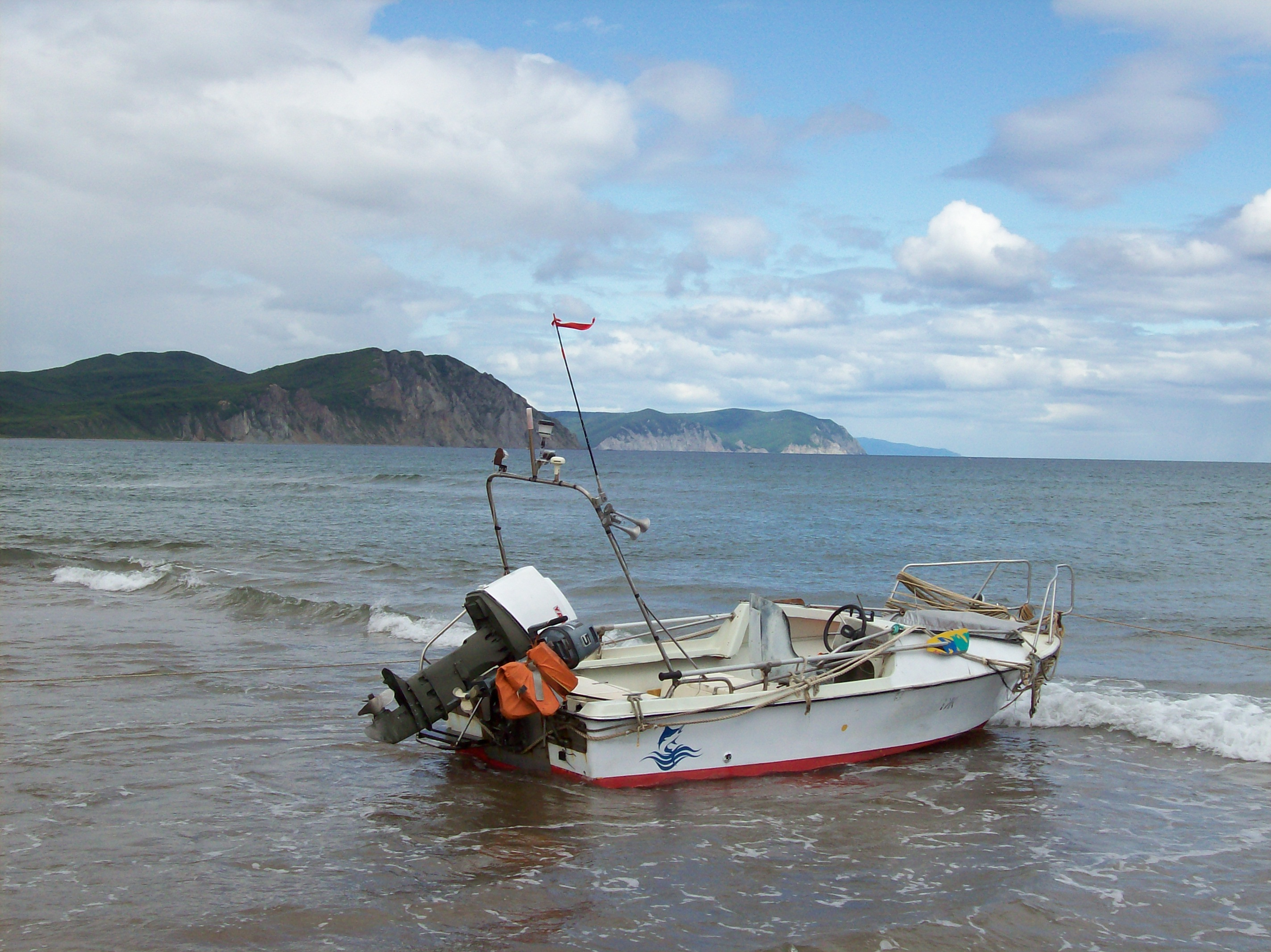 Kavalerovo, Primorsky Krai